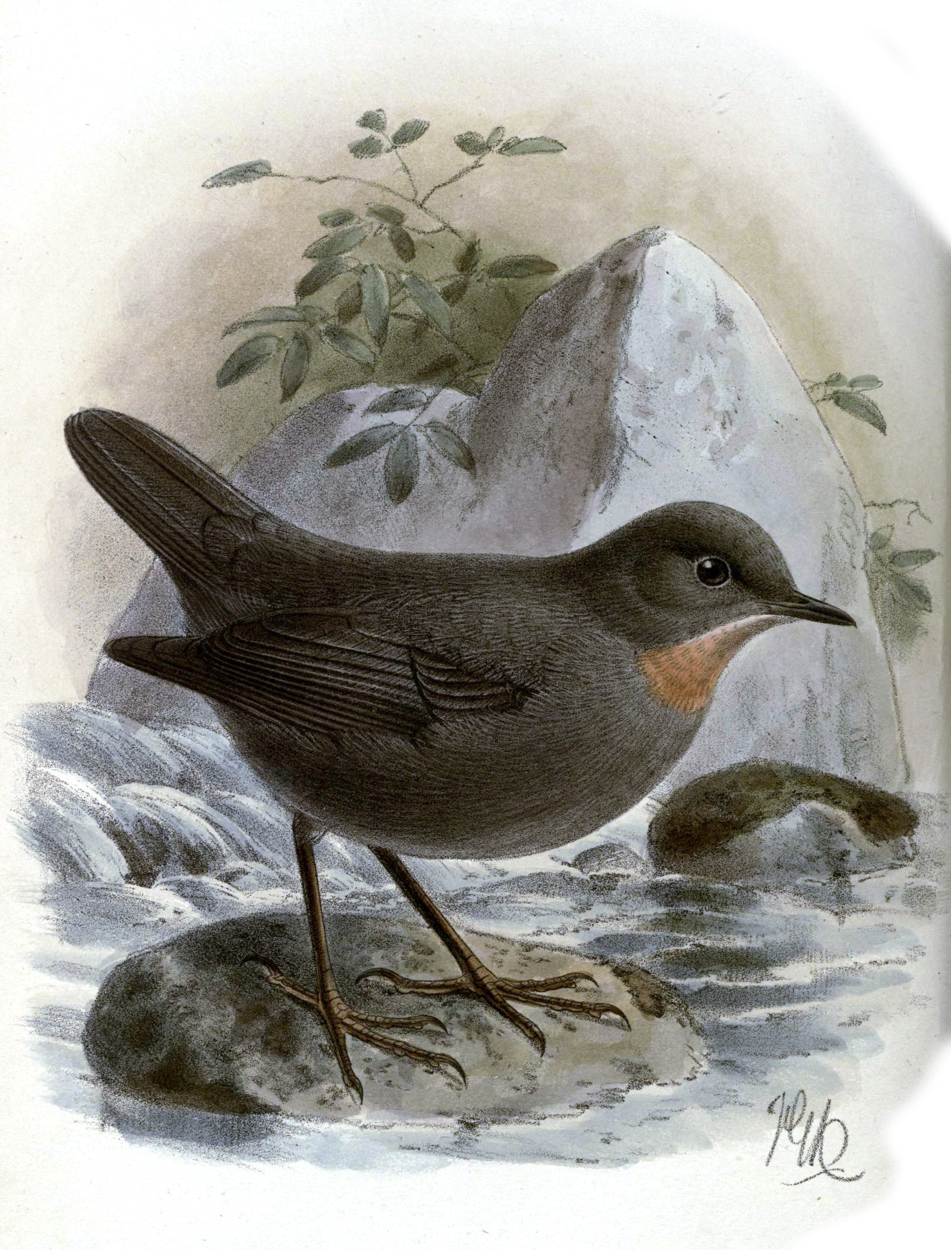 « Cinclus schulzi » = Cinclus schulzii (Rufous-throated Dipper)